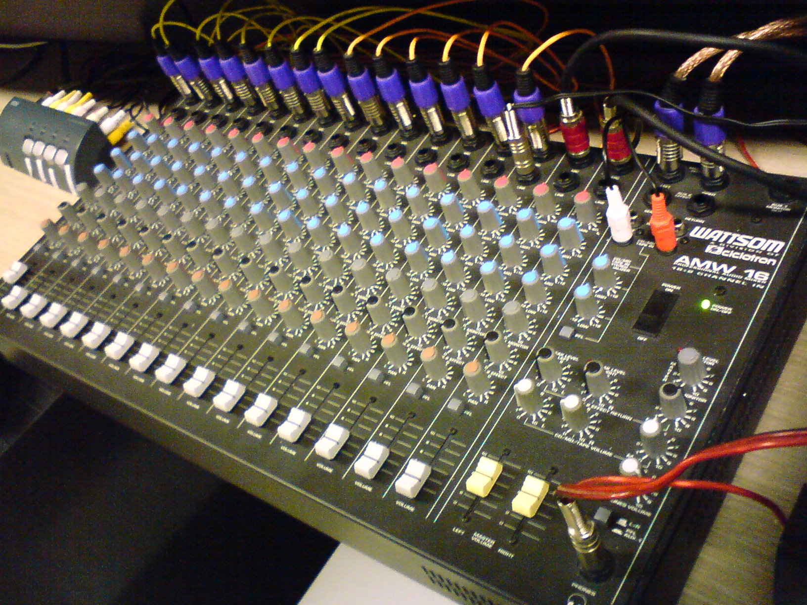 Mixing console, 16 channels.